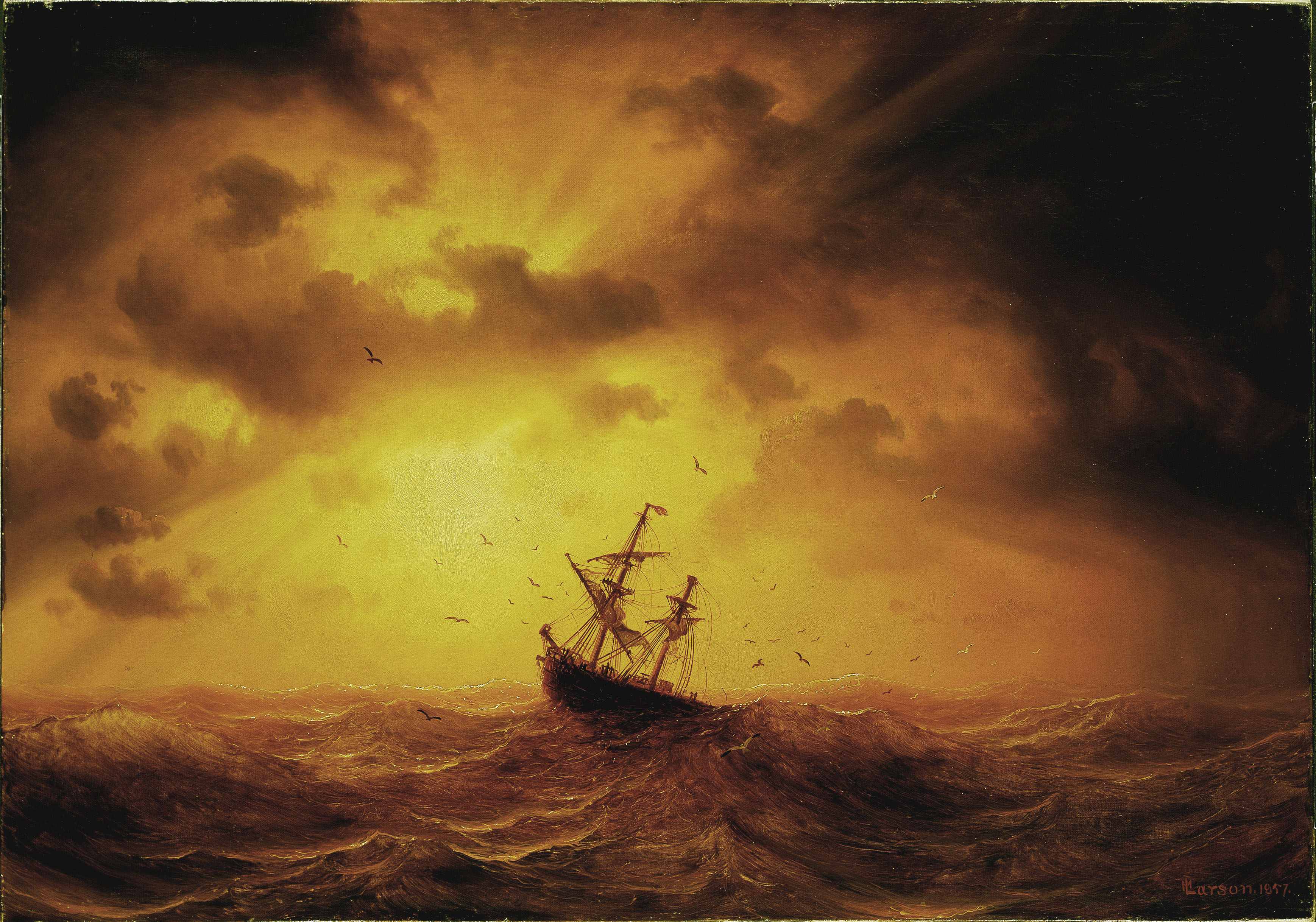 Stormy Sea